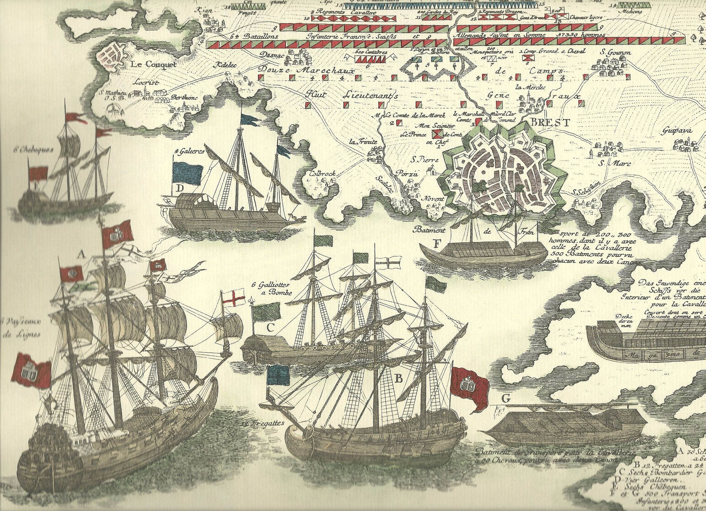 French ships, which should land French and Imperial German troops in England, in the port of Brest (1759)